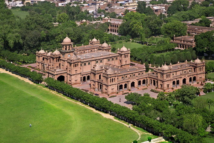 Islamia College Peshawar This is a photo of a monument in Pakistan identified as the KPK-83